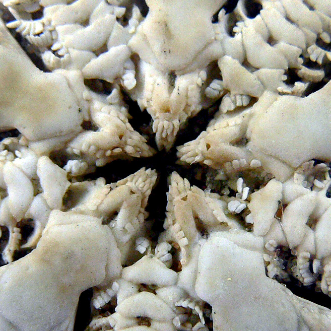 Ophiura (sp ?), detail (mouth) on the sand shore of Oye-Plage (near natural reserve), north of France